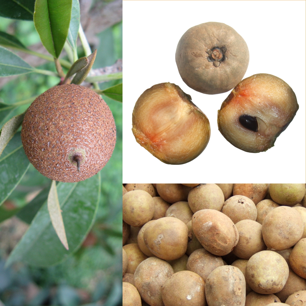 Sapodilla (Manilkara zapota)